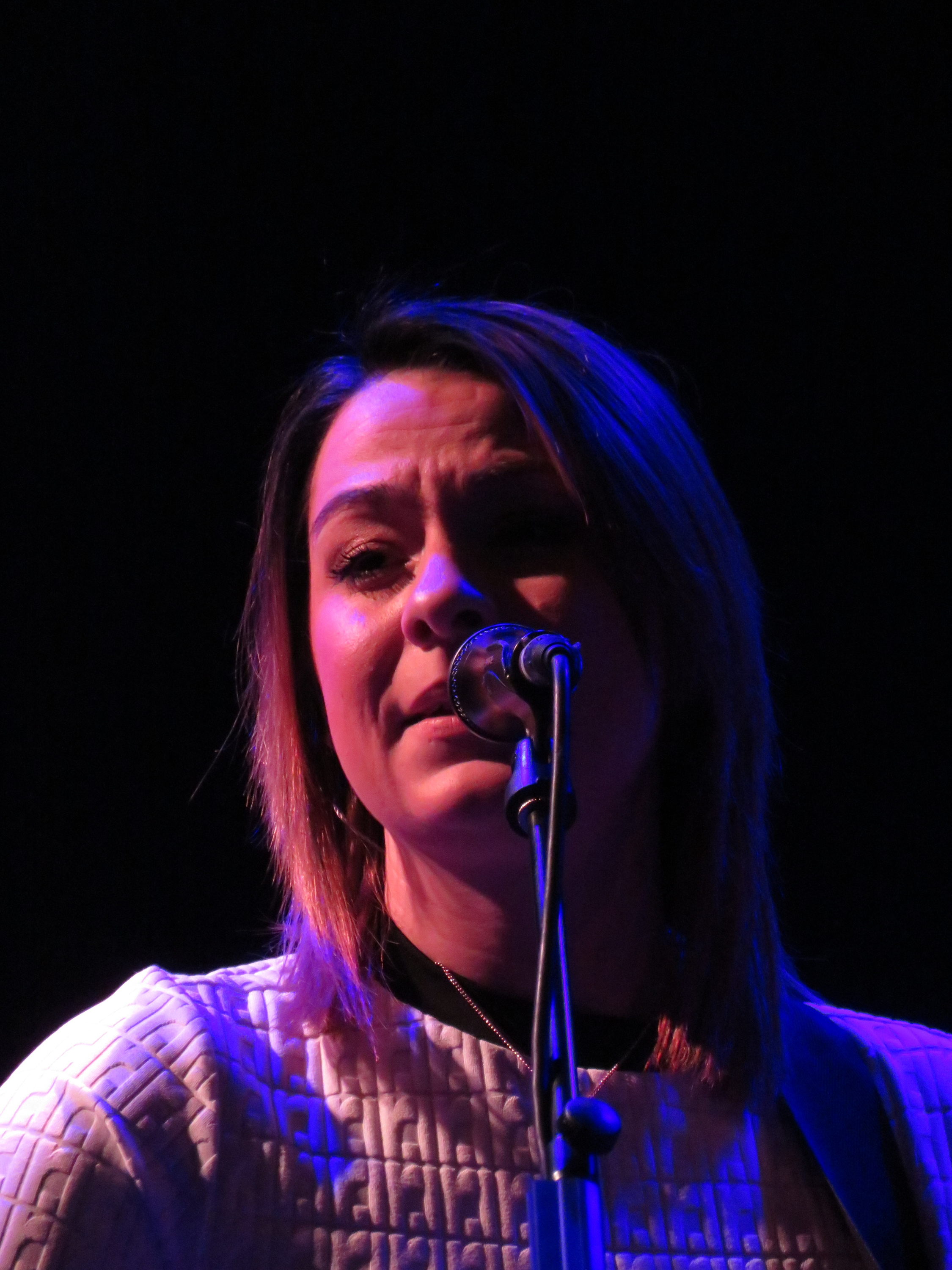 Lucy Spraggan, 2019-03-03, Muffathalle, Munich, support act for Melissa Etheridge